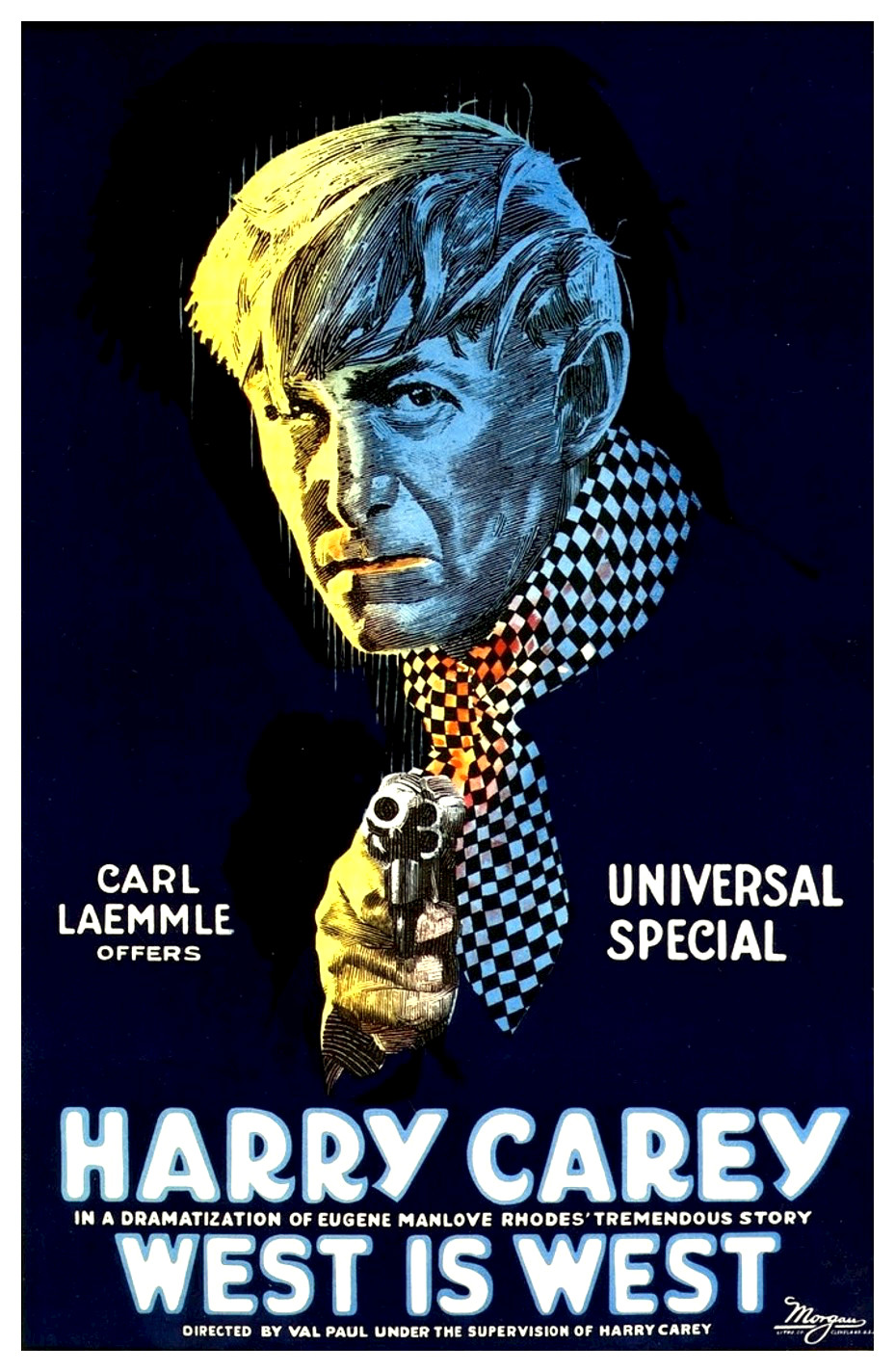 Poster for the American western film West Is West (1920) with Harry Carey.